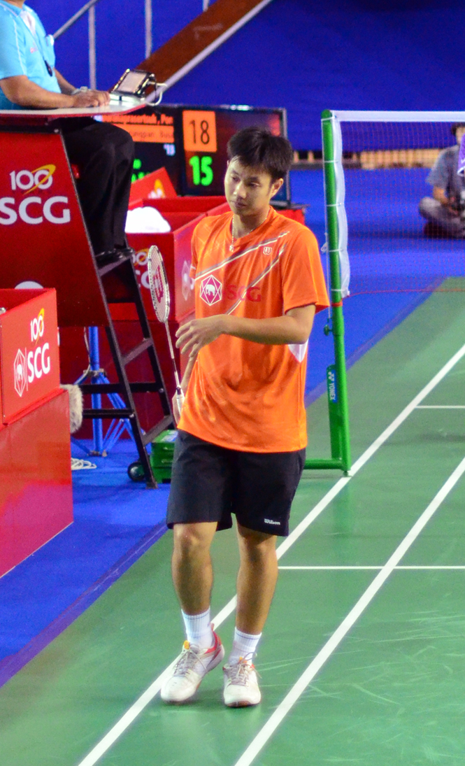 Boonsak Ponsana